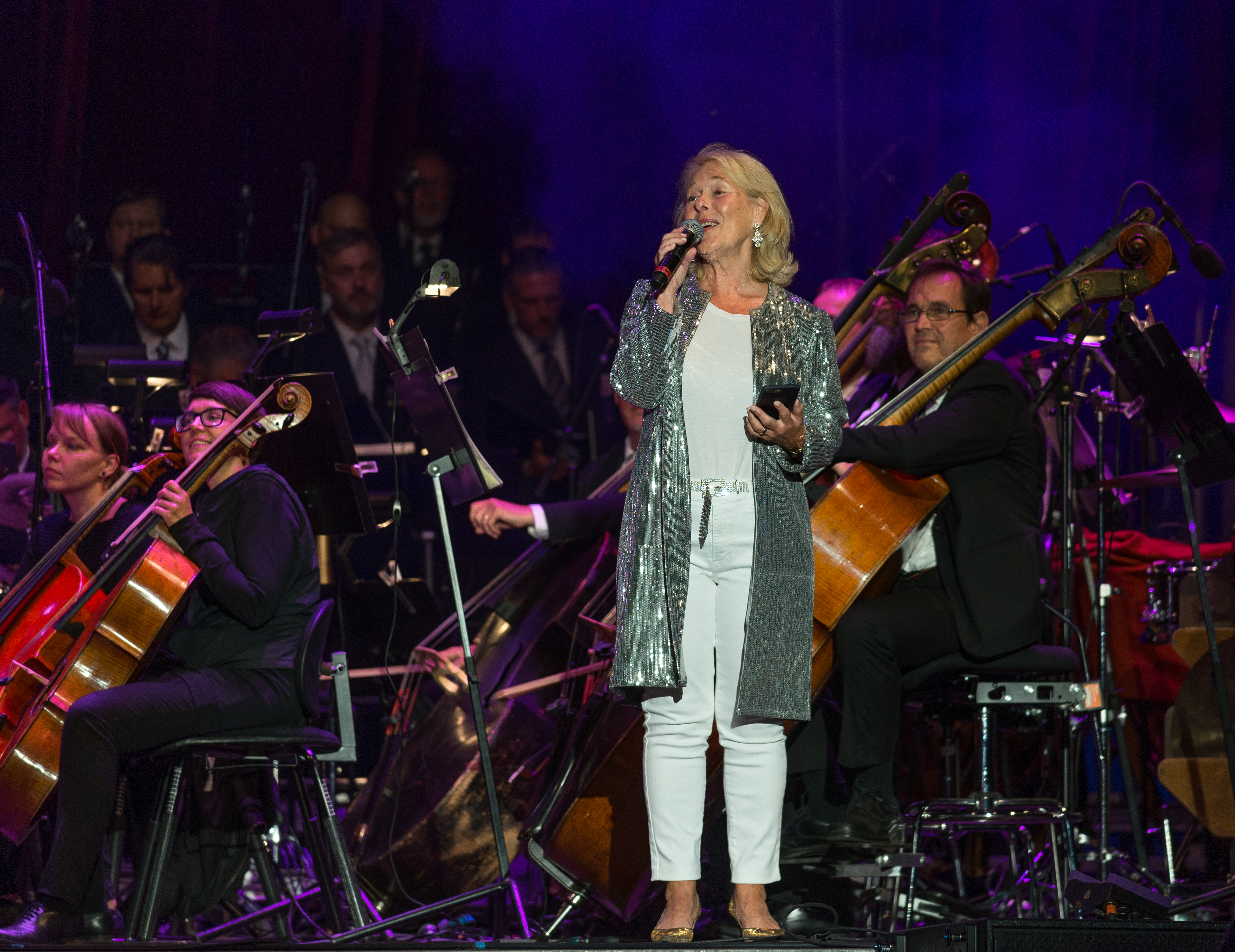 Birgitta Svendén at Gustav Adolfs torg during Stockholm's cultural festival 2019. With the Royal Hov Chapel from the Stockholm Opera